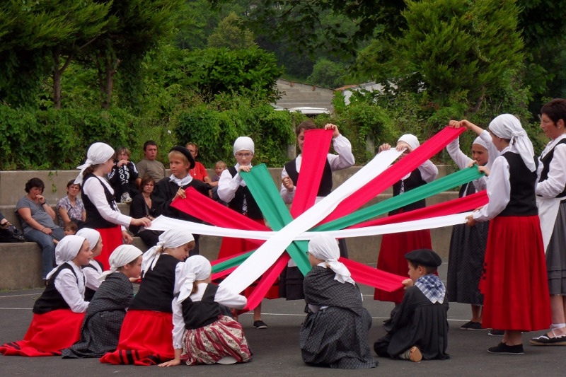 Bithindarrak basque folklore group in Larceveau-Larzabale.